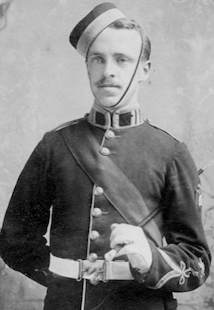 Lieutenant Charles Carroll Wood (19 March 1876–11 November 1899) was a junior member of a renowned family who had distinguished themselves in America. He was the first Canadian Officer to die in the Second Boer War